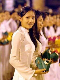 schoolgirls in white áo dài